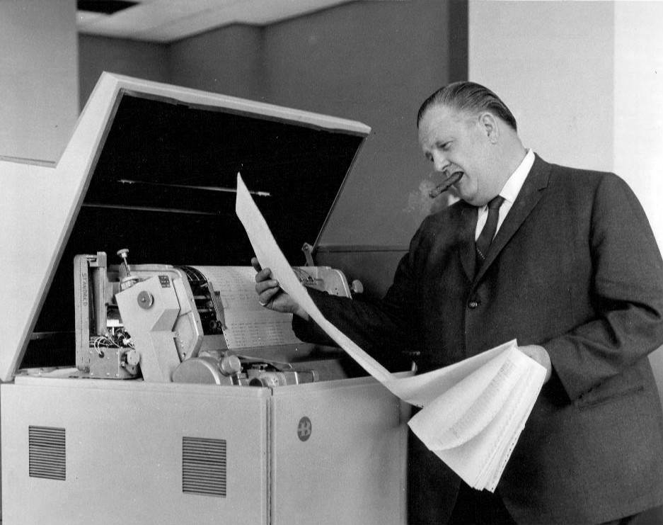 Photo of newscaster Alex Dreier who is shown working with a then high-tech printer for the 1964 Illinois Republican primary elections for television station WBKB. The station changed its call letters a few years after this photo was taken to WLS-TV. It is an owned and operated station of ABC in Chicago.